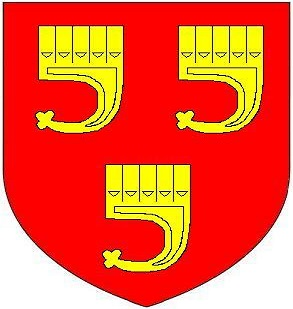 Arms of Grenville family of Bideford, Devon & Stowe, Cornwall: Gules, three clarions or. The armorials of the family of Granville / Grenville of Glamorgan, Devon and Cornwall is of certain form but uncertain blazon. The charges appear in the form of musical pipes of a wind-instrument, similar to pan-pipes. Authoritative sources on heraldry suggest the charges to be variously "clarions" (used by Guillim (d.1621)), the most usual blazon, which are however generally defined as a form of trumpet; "rests" is another common blazon, denoting lance-rests supposedly used by a mounted knight; "organ-rests" is also met with, a seemingly meaningless term (Gibbon (1682)). Other terms are "clavicymbal", "clarichord" and "sufflue" (used by by Leigh in his Armory of 1562 and by Boswell, 1572)[4] , the latter being a device for blowing (French: souffler) air into an organ.,[5] Guillim suggested the charge may be a rudder,[6] but in which case it is shown upside down, when compared to that charge used for example on the tomb at Callington of Robert Willoughby, 1st Baron Willoughby de Broke. Certainly in the brasses on the chest tomb of Sir John Bassett (d.1529) in Atherington Church, Devon, the charges are engraved in tubular forms with vents or reeds as used in true organ pipes. For modern shape of clarions adopted circa 17th c. see File:GrenvilleArms ModernClarions.png